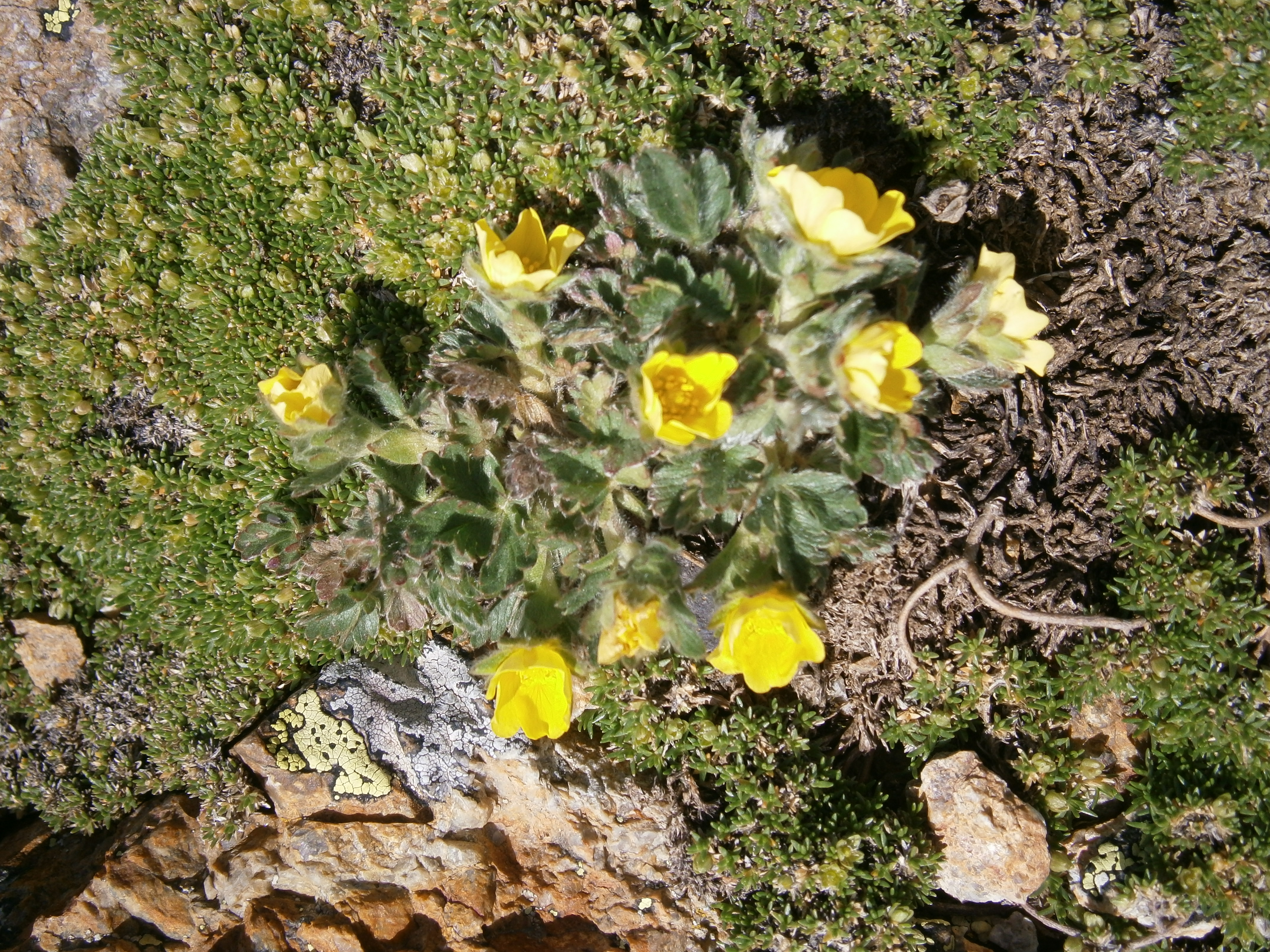 Potentilla frigida